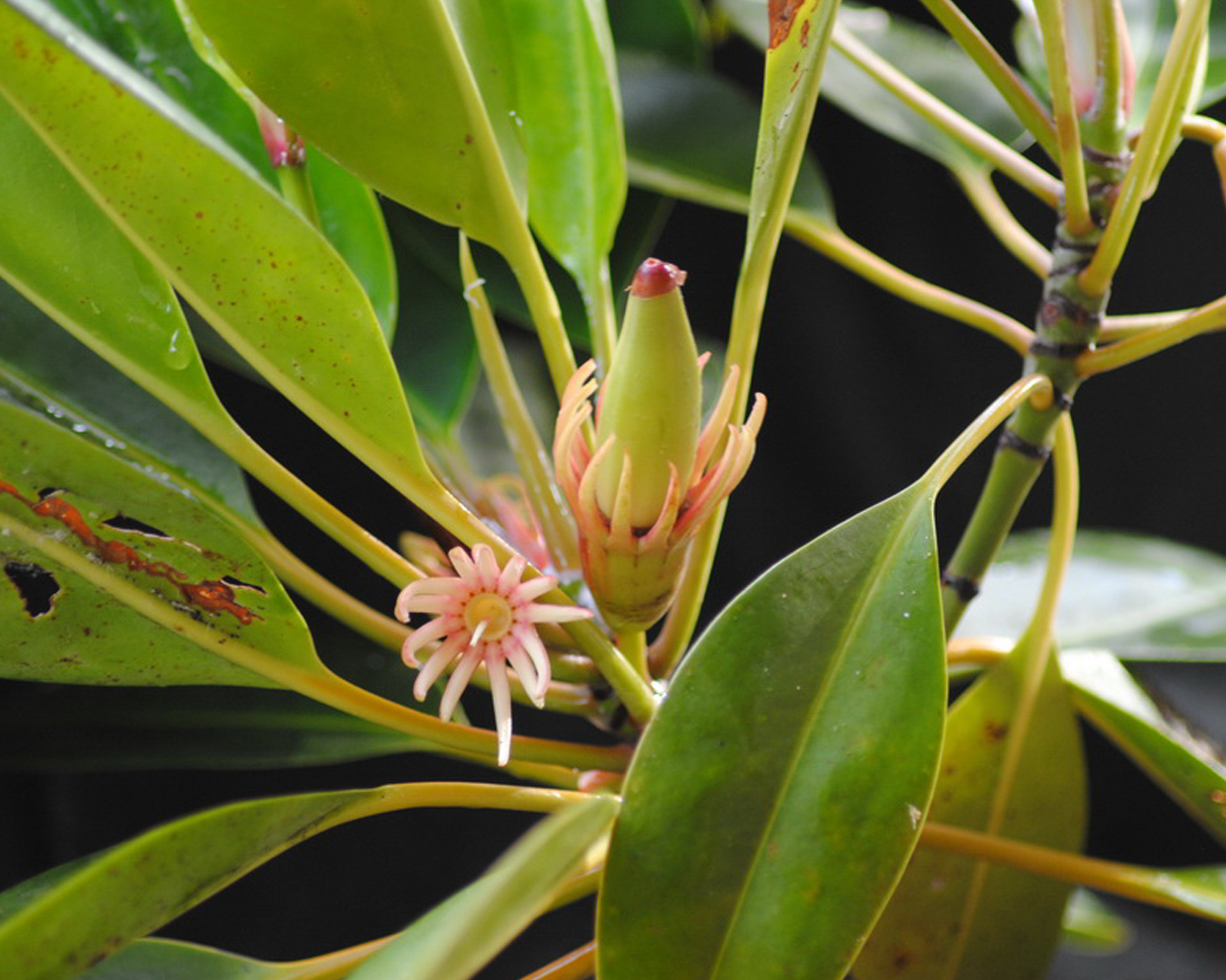 Bruguiera sexangula (Lour.) Poir. from Bulon Le Island, Thailand